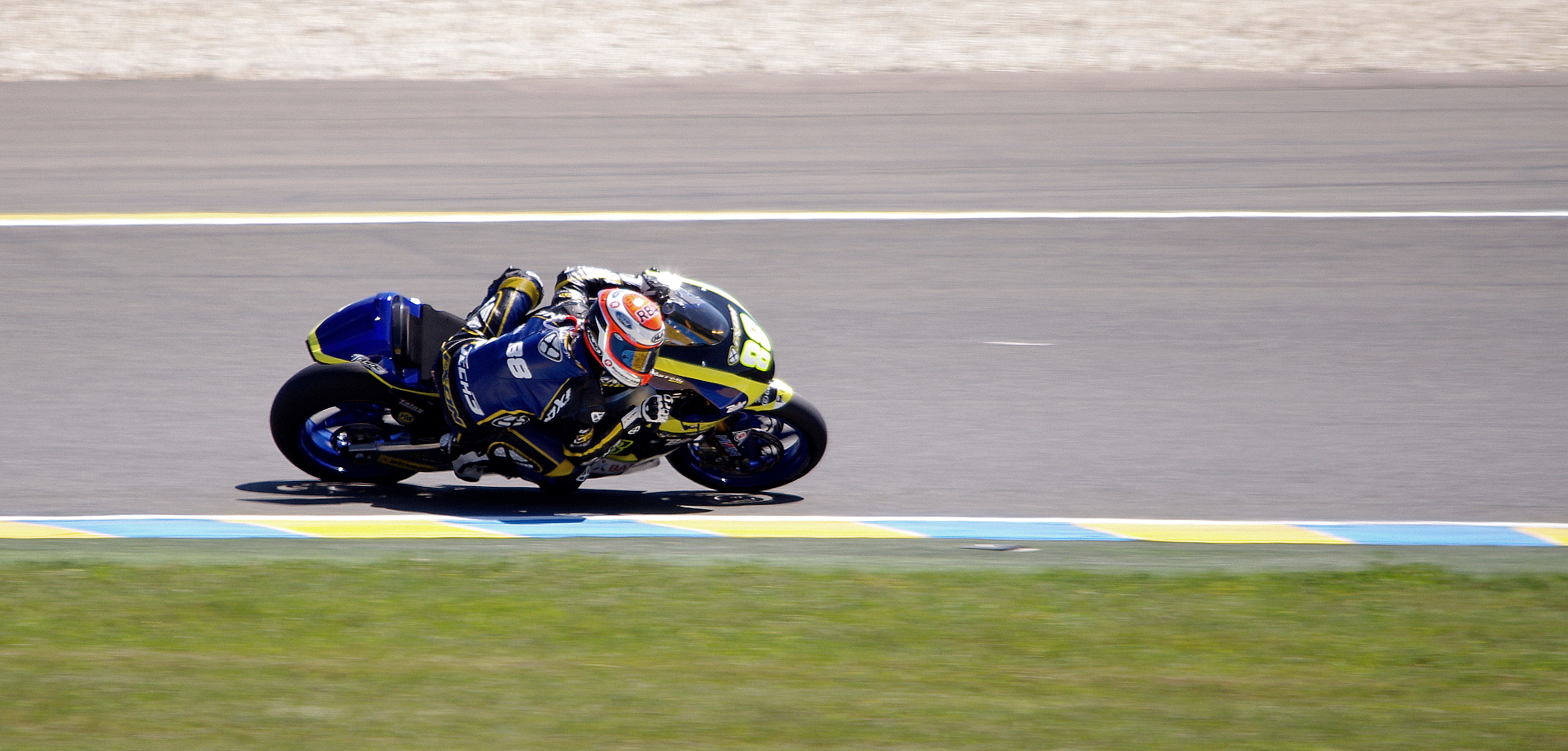 Ricard CARDUS - Tech 3 - Moto2 2014 - Le Mans 2014 french motorcycle Grand Prix at Le Mans Bugatti Circuit